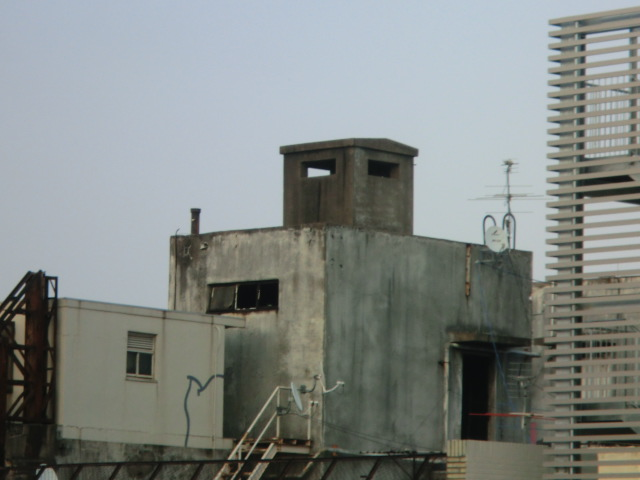 Bo ku kanshi sho(Japanese air defence dome in WW2) in Kitakyushu city,Fukuoka prefecture.